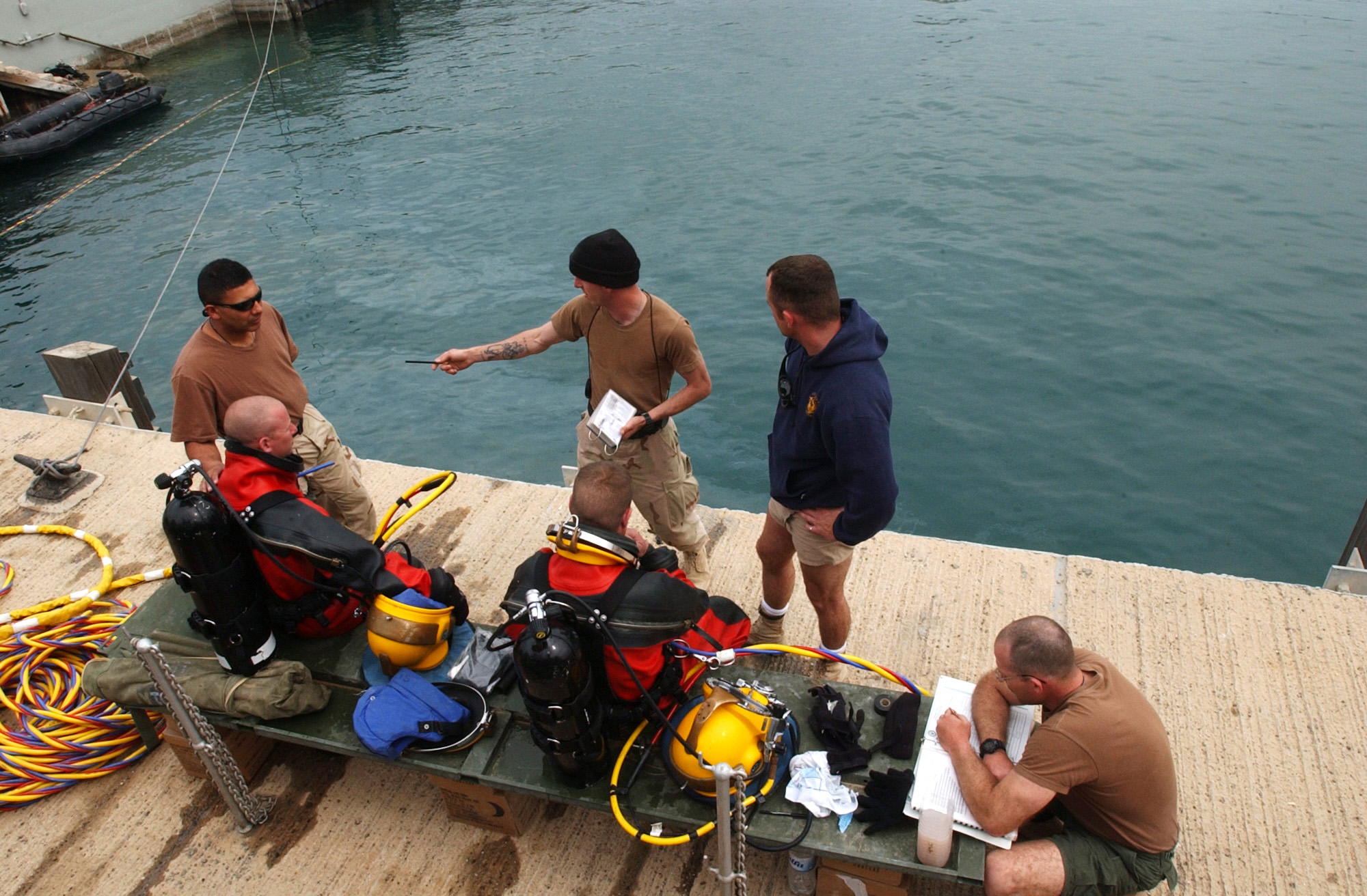 Camp Patriot, Kuwait (Mar. 11, 2003) -- Members of Underwater Construction Team Two (UCT-2) listen to a safety brief from their dive supervisor prior to conducting training dive operations at Camp Patriot. Underwater Construction Team Two (UCT-2), which is forward deployed in support of Operation Enduring Freedom. U.S. Navy photo by Photographer's Mate 1st Class Arlo K. Abrahamson. (RELEASED)